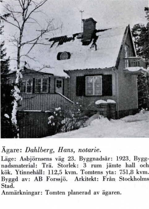 Asbjörnsens väg 23, Smedslätten, Bromma. Byggår 1923. Byggd av AB Forssjö. Arkitekt: Från Stockholms stad. Byggnadsmaterial: Trä. Storlek: 3 rum jämte hall och kök. Ytinnehåll: 112,5 kvm. Tomtens yta: 751,8 kvm. Ägare: Hans Dahlberg, notarie. Villan ligger längs gatans trottoar med trädgården på insidan.